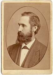 Portrait of Jesse Macy, Professor of Political Science at Grinnell College, Grinnell Iowa